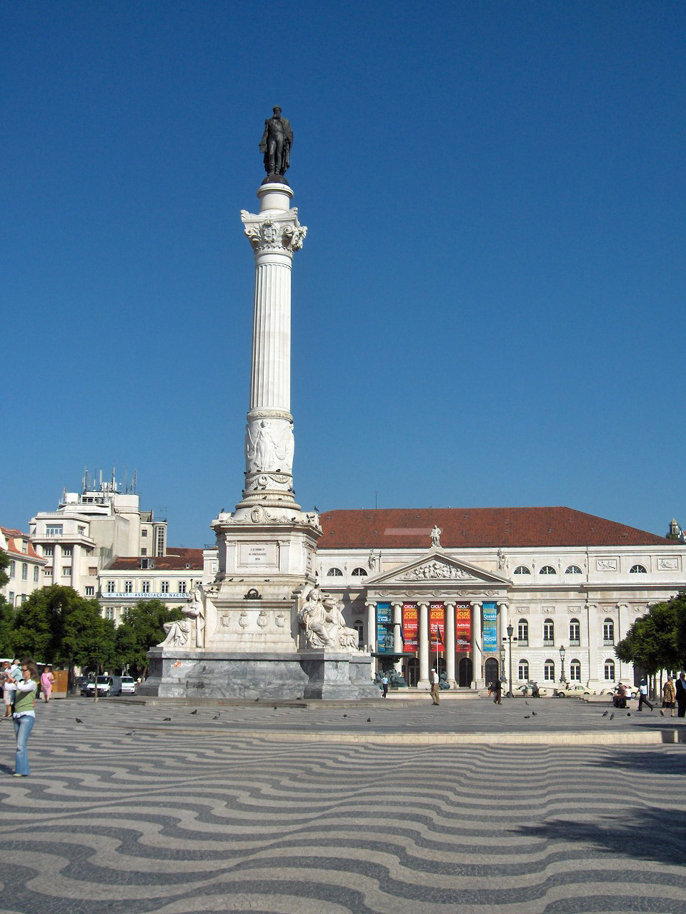 Column with statue of Pedro IV (or Maximilian of Mexico ?); in the background : Teatro Nacional Dona Maria II; Lisbon, Portugal